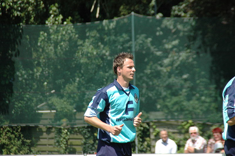 Folkert van der Wei, Frisian handball player.